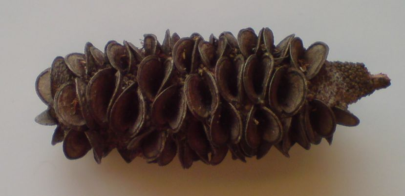 Banksia "cone"